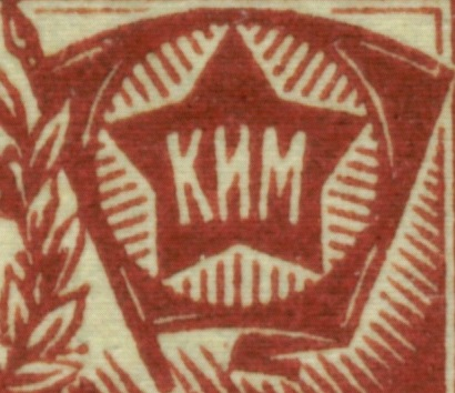 Symbol of Young Communist International